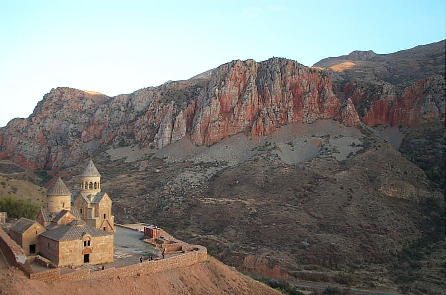 Noravank Monastery in Armenia with cliffs at sunset.